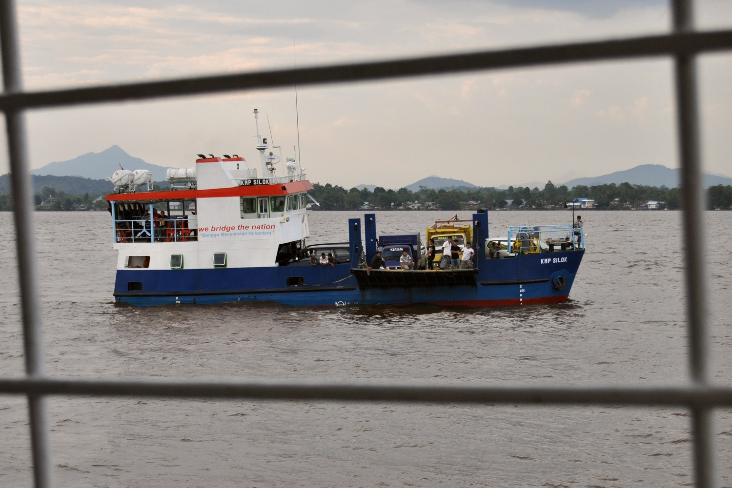 KMP Silok, ferry at Kapuas River of Tayan, West Kalimantan, Indonesia